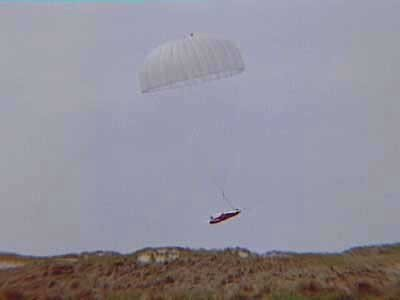 A KD2R target drone decends with a parachute during live firing excercises of the Leeuwarden Detachment on shooting range "Botgat", near Julianadorp, the Netherlands.